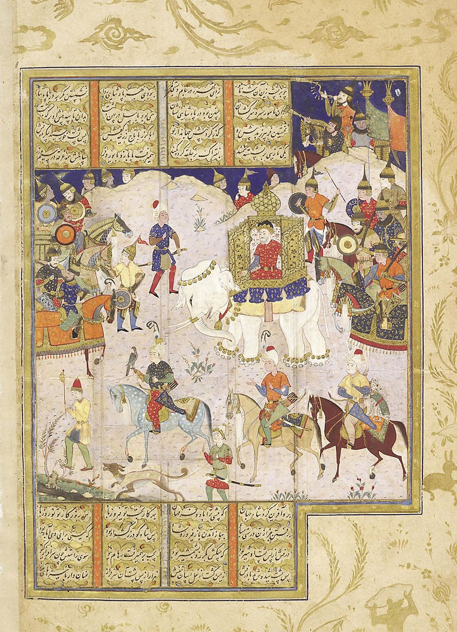 Illumination: Kay Khusraw Reviews His Army, from a manuscript copy of the Shahnama calligraphed in Shiraz in the Fars province of Iran in 1561-62